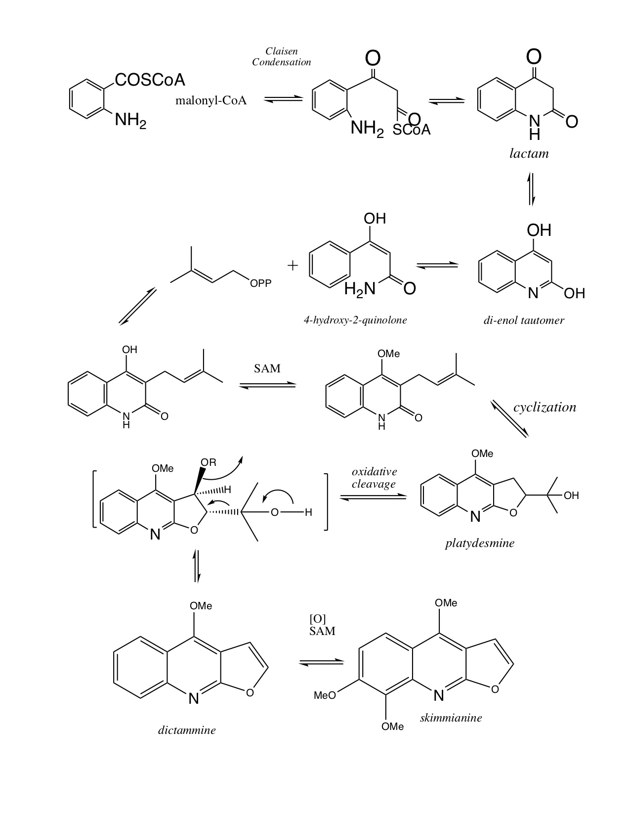 Biosynthesis pathway and mechanics of the compound